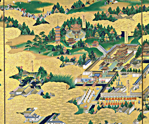 View of Edo, left screen. pair of six-panel folding screens (17th century). UPPER MIDDLE OF FIFTH PANEL, Left Screen Shiba Zojoji Temple, Daitokuin Buddha Hall, Iemitsu visiting the Daitokuin Buddha Hall.